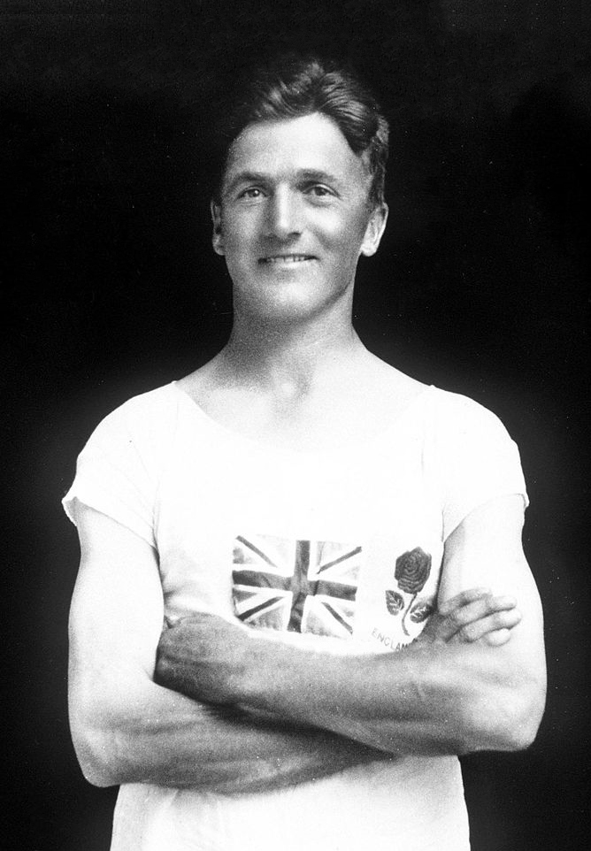 Olympic Games, Antwerp, Belgium, Marathon, Great Britain's A,R, Mills